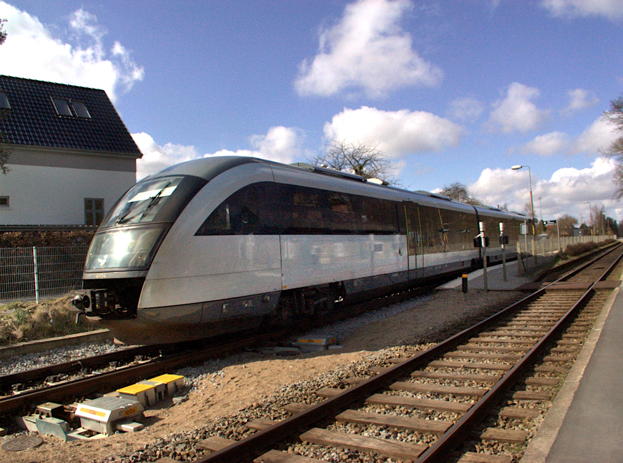 A Desiro train on the railroad between Svendborg and Odense in Denmark.